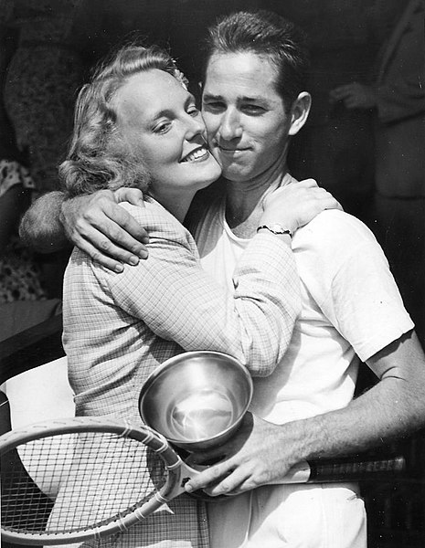 Bobby Riggs National Professional Grass Courts Tennis Champion 1946 Press Photo